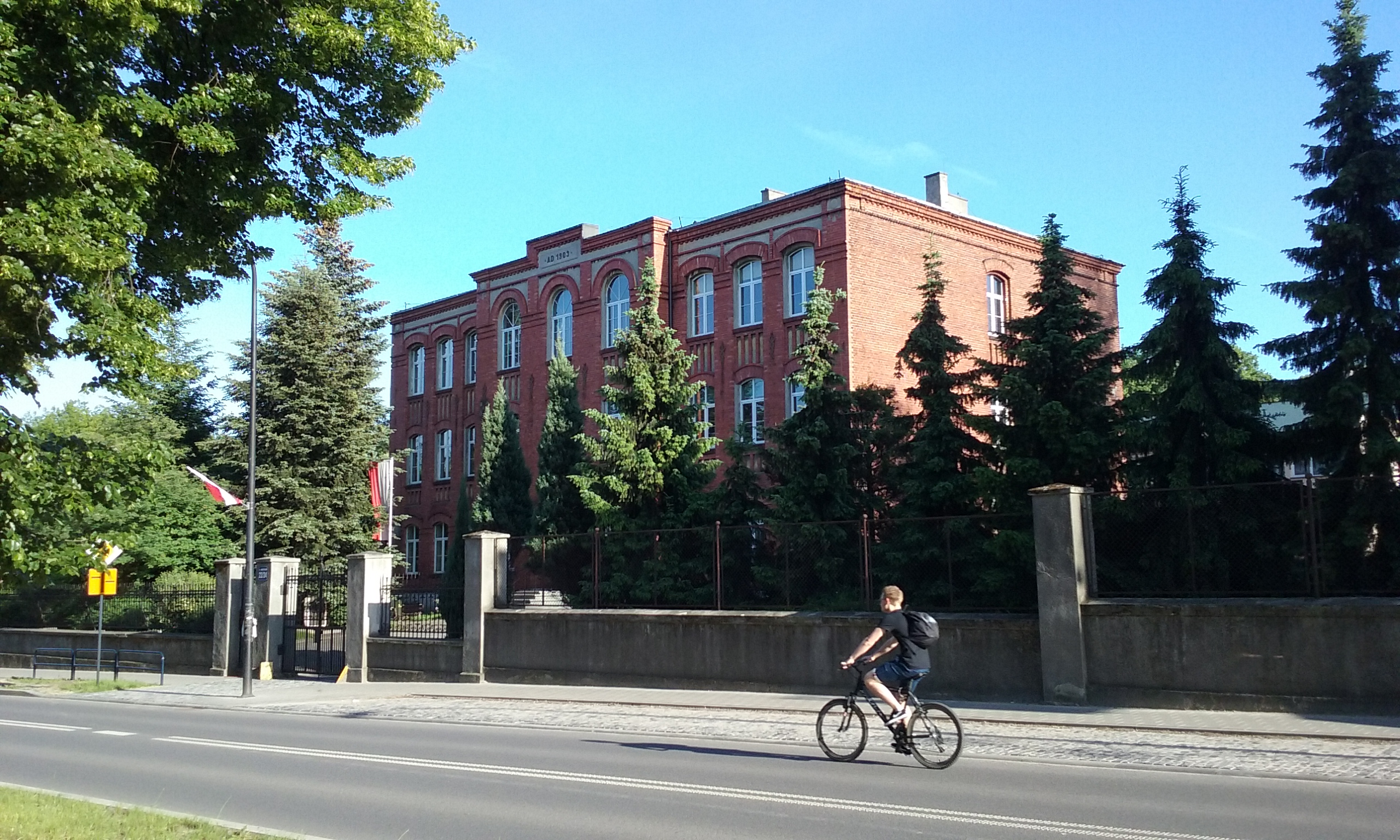 I LO im. Jarosława Dąbrowskiego w Tomaszowie Mazowieckim. Szkoła od lat odnotowywana wśród najlepszych polskich liceów w rankingu miesięcznika Perspektywy